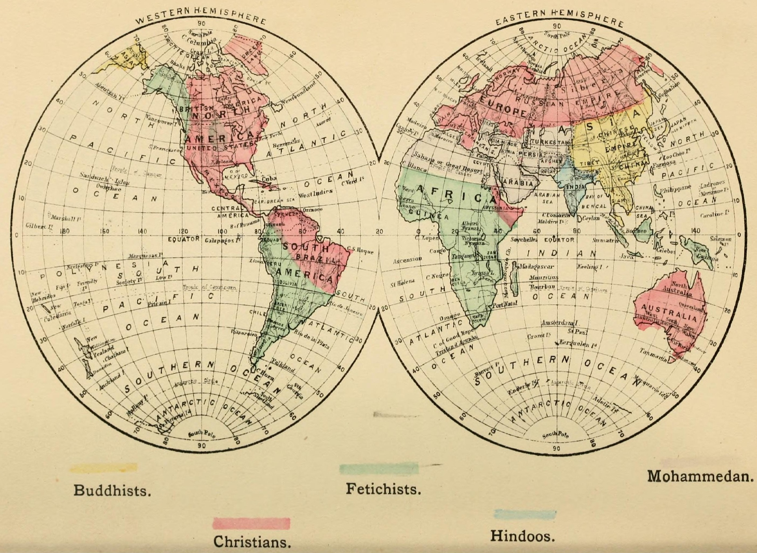 An early map of the "world's religions". Pink Christians Yellow Buddhists (also Confucianist, Taoist, Shinto etc.) Blue "Hindoos" Grey Mohammedan Green "Fetichists"[sic] (i.e. predominance of animist, tribal, or native religions)